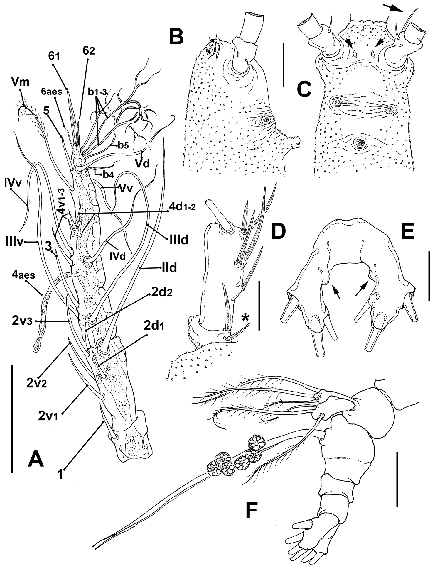 Monstrillopsis planifrons sp. n., adult female holotype from the Canadian Arctic. A right antennule showing armature following nomenclature by Grygier & Ohtsuka (1995), dorsal view B cephalic area showing forehead and perioral ornamentation, lateral view C cephalic area, showing cuticular processes and ornamentation, ventral view, arrow shows supernumerary spiniform element on first segment of left antennule D detail of first and second antennulary segments of left antennule showing supernumerary spiniform element on first segment (*) E fifth leg, ventral view showing small lobe-like processes on inner margin of exopodal (outer) lobes (arrowed) F urosome, showing fifth legs and ovigerous spines, lateral view. Scale bars: A 200 µm, B–F 100 µm, D–E 50 µm.